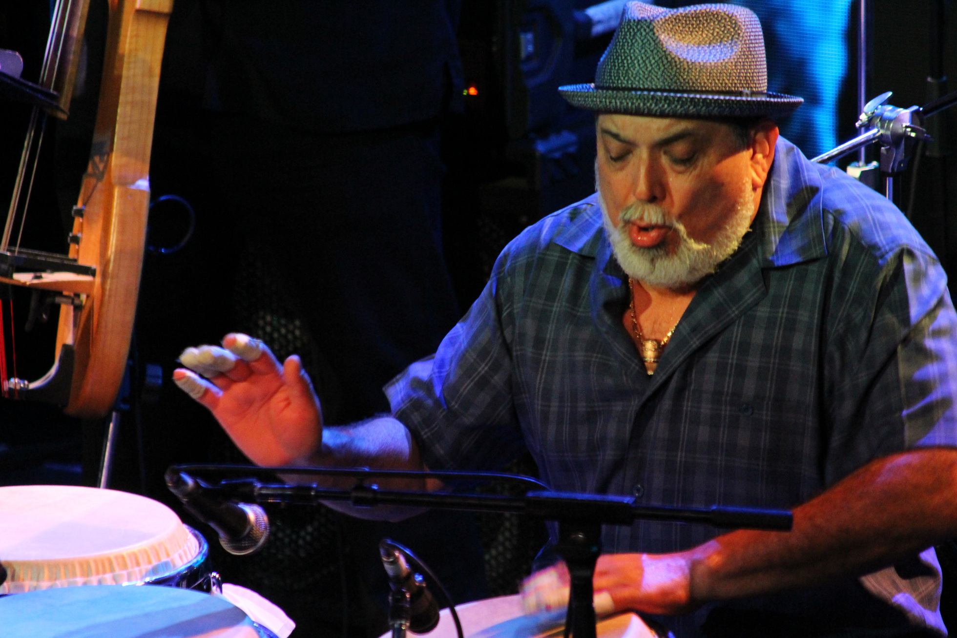 Poncho Sanchez performing at Jazz Cruise 2014 - Day 2